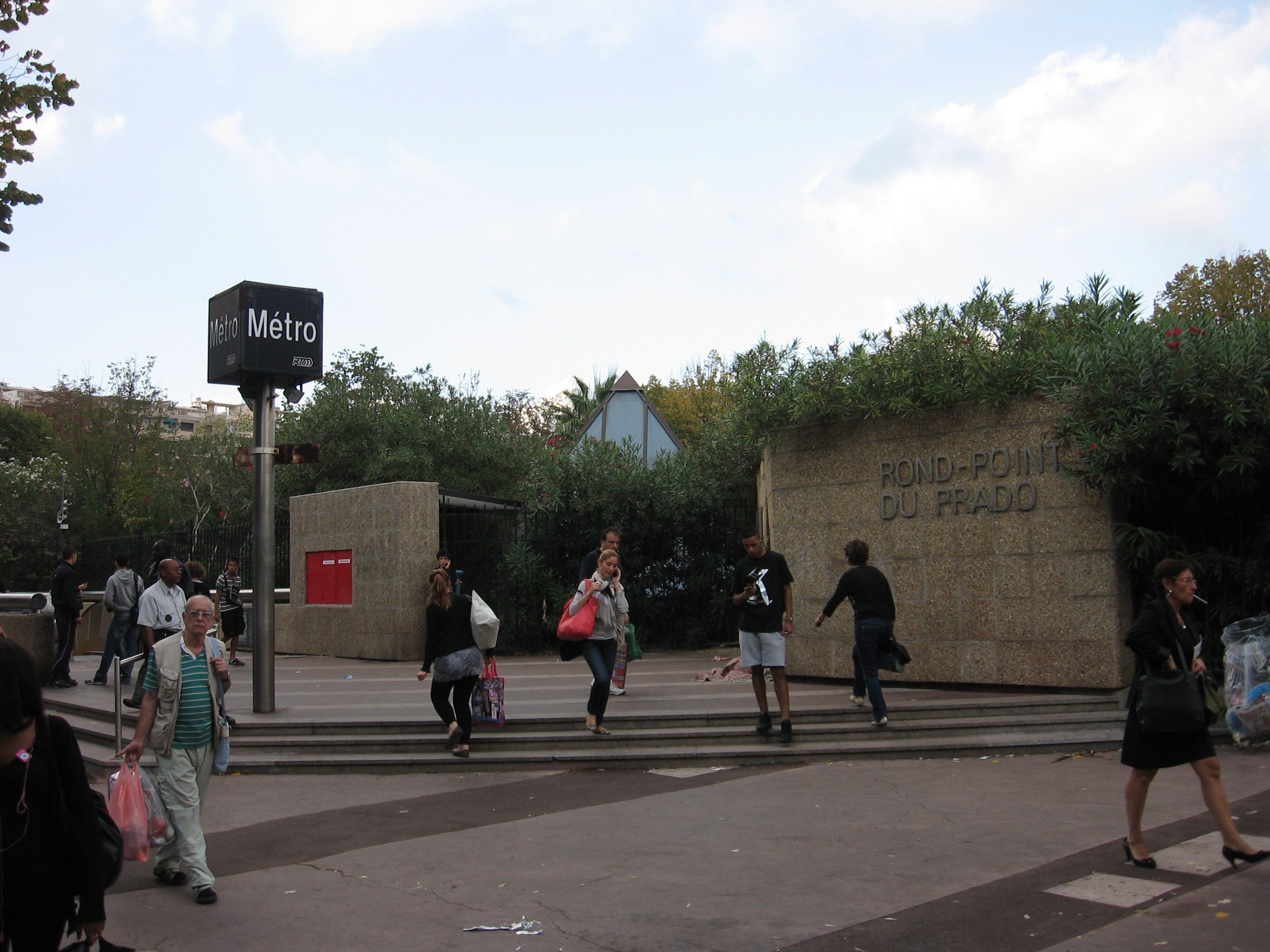 Rond-point du Prado